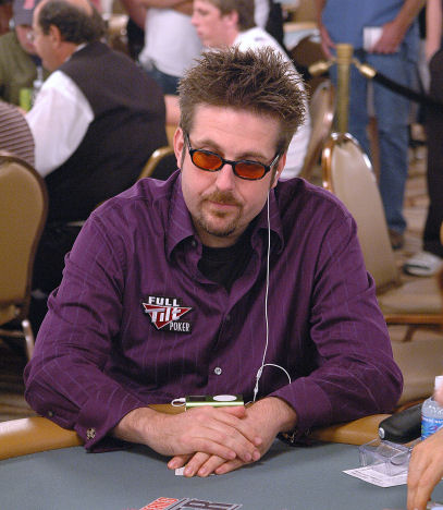 Robert Williamson III in WSOP2006 2006 World Series of Poker at Rio, Las Vegas.